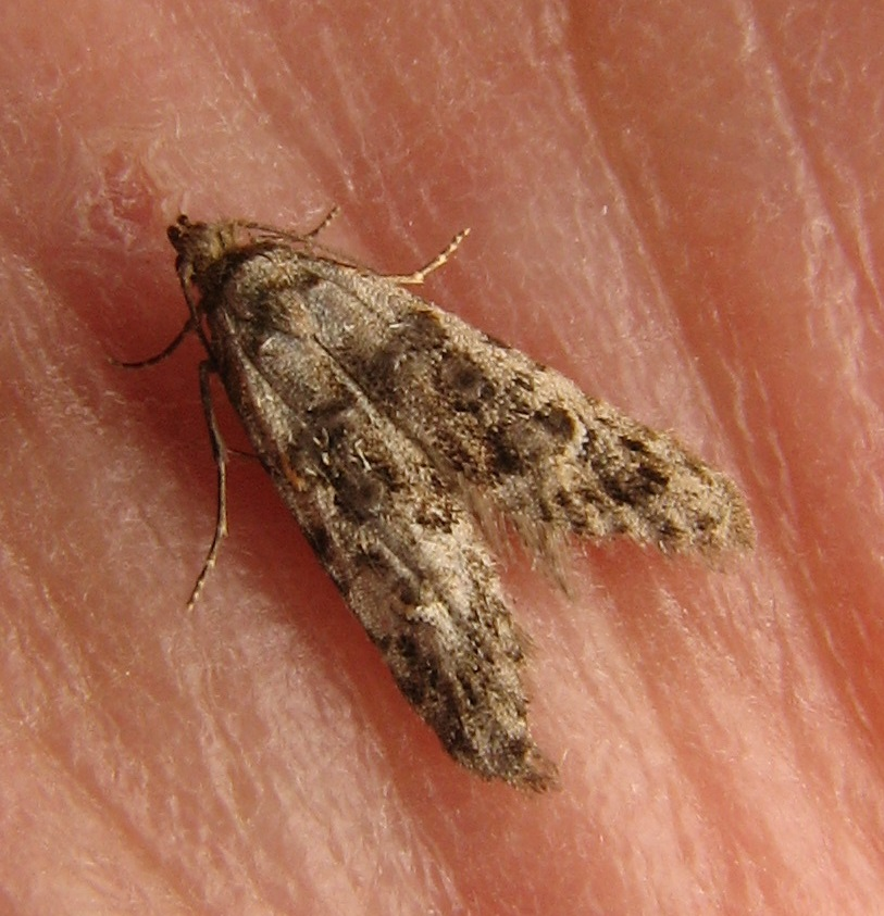 Fruitworm moth, Bondia sp. Canaan Valley, National Wildlife Refuge, Tucker County, West Virginia, USA.